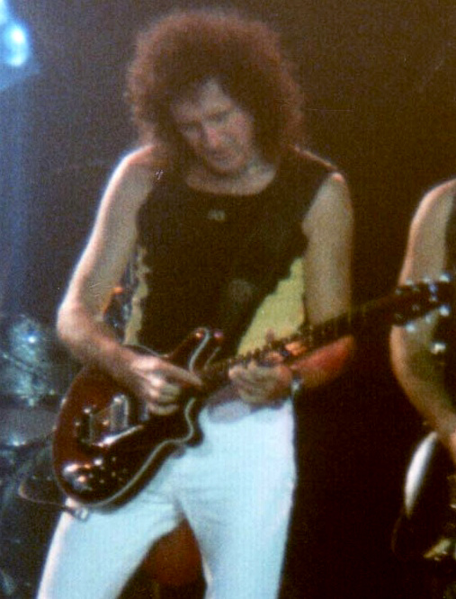 Brian May live in Cologne, Germany